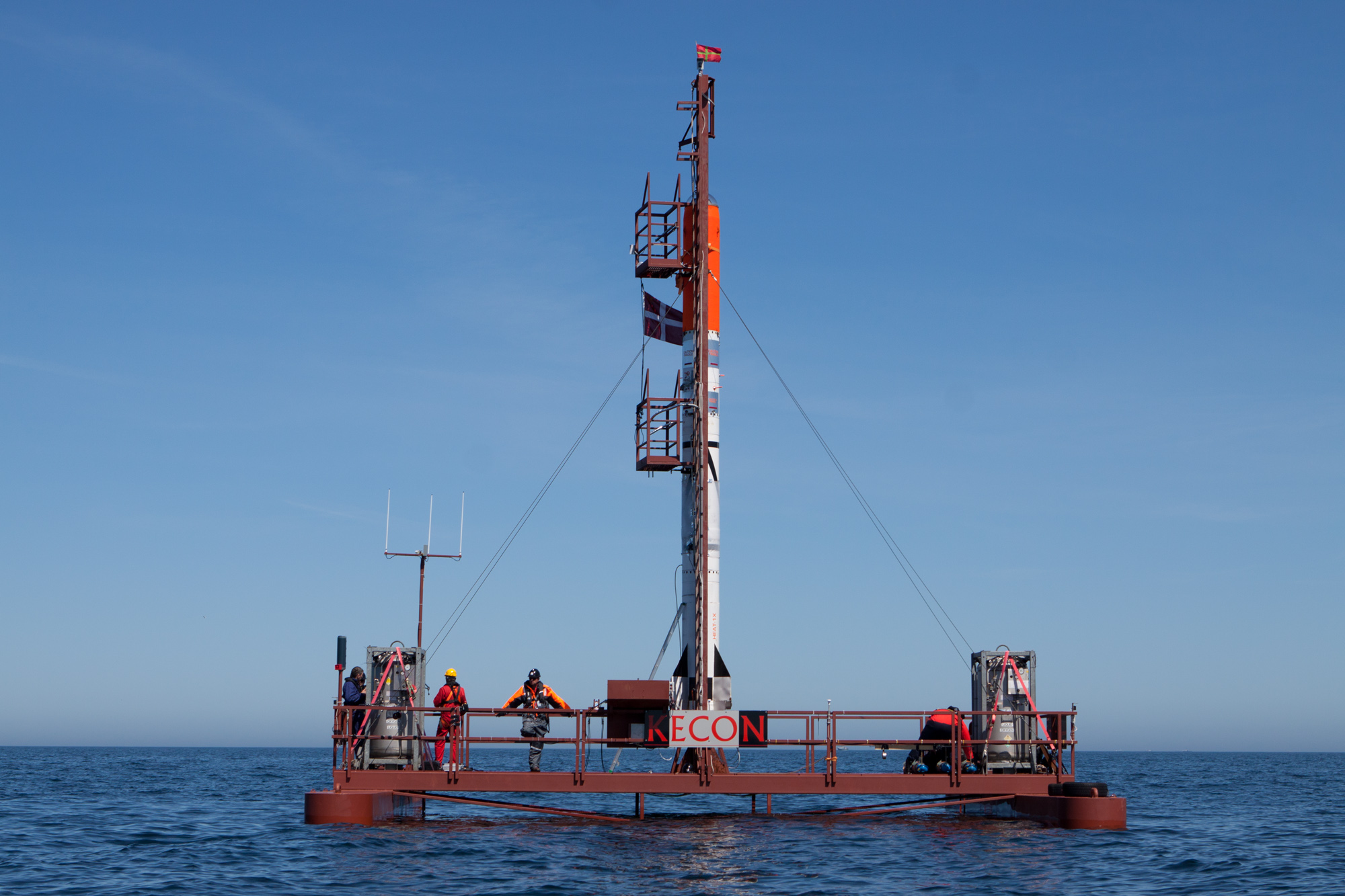 Mobile launch platform Sputnik with HEAT1X and Tycho stacked.